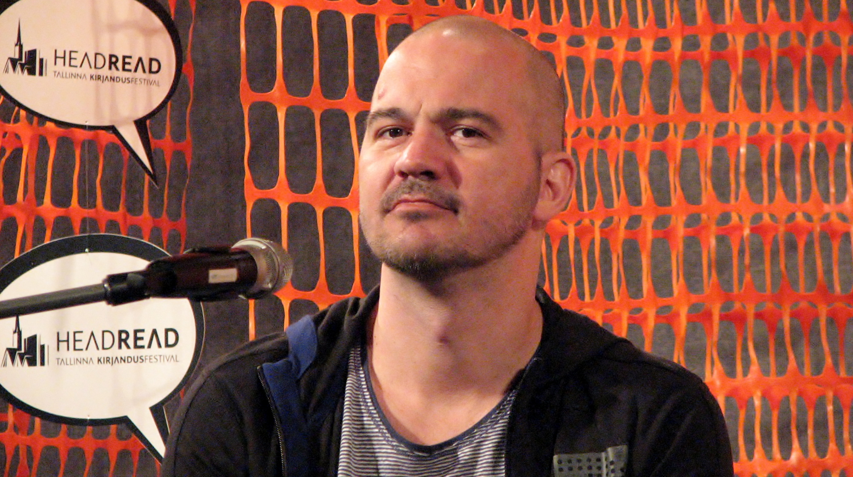 Thomas Glavinic performing in HeadRead festival